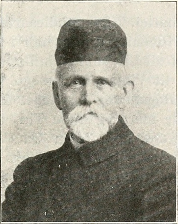 Title: Dansk ornithologisk forenings tidsskrift Year: 1907 (1900s) Authors: Dansk ornitologisk forening Subjects: Birds -- Periodicals; Birds -- Denmark Periodicals Publisher: (Kavn) : Den Forening Text Appearing Before Image: ' Text Appearing After Image